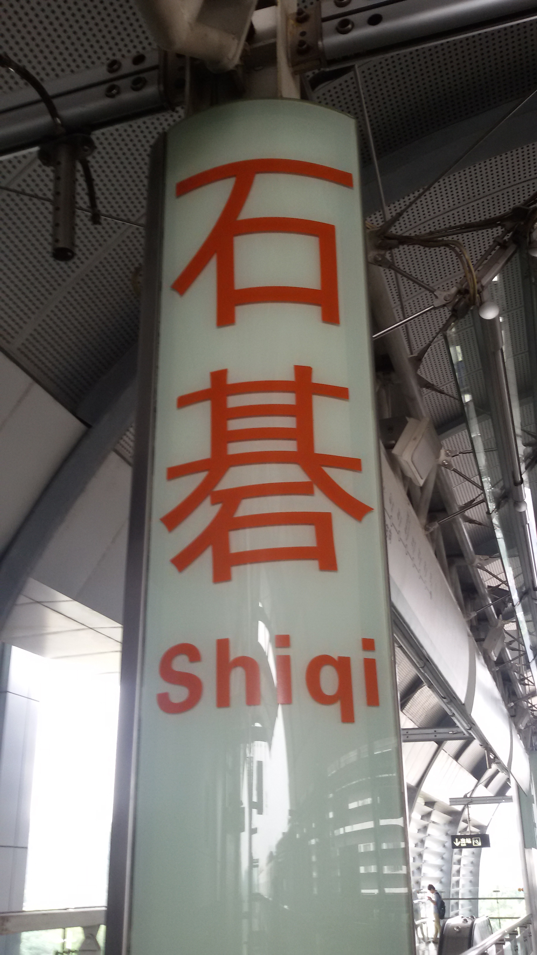 廣州地鐵，石碁站嘅柱上啲字。